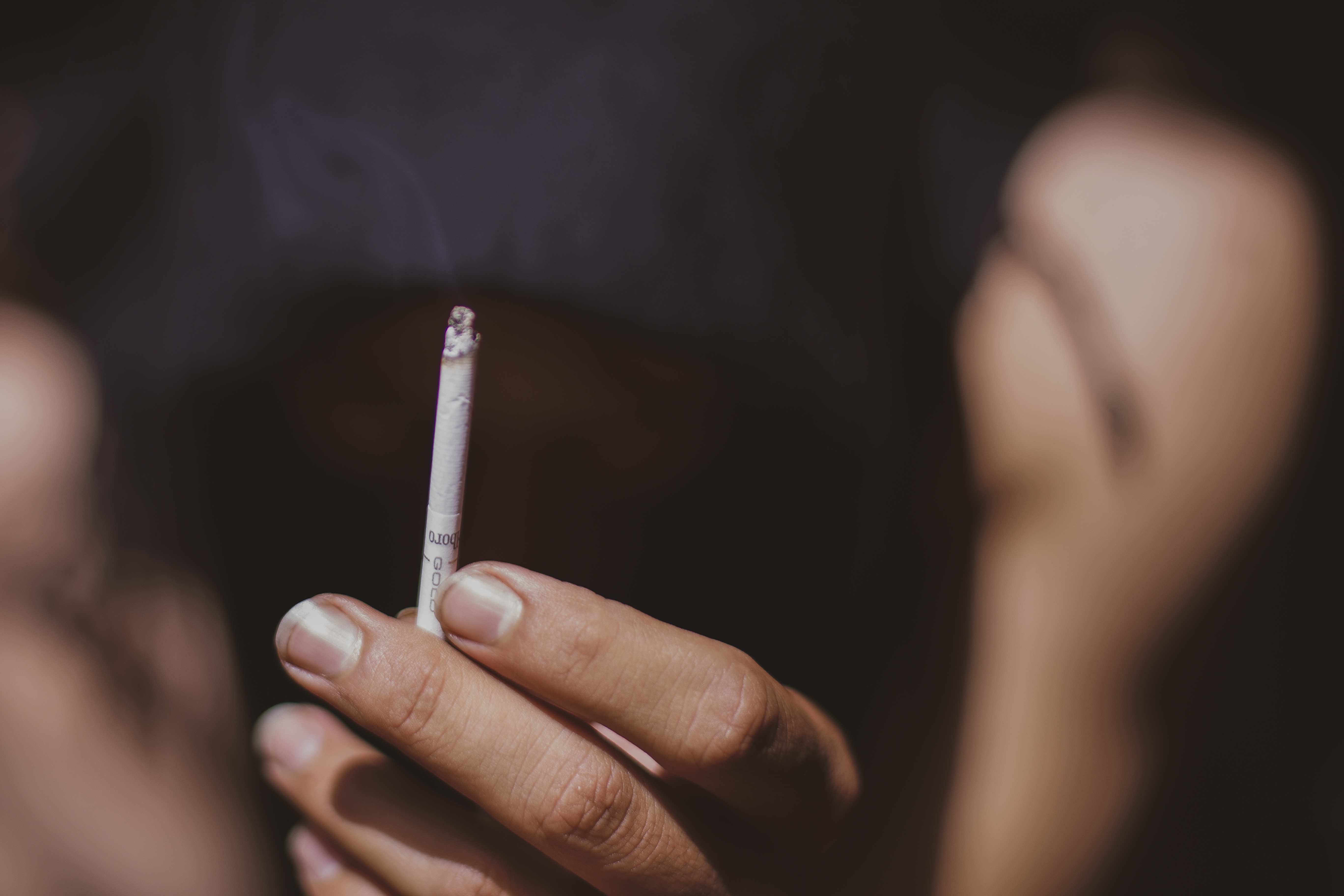 Smoking cessation is the process of discontinuing tobacco smoking. Tobacco smoke contains nicotine, which is addictive and can cause dependence.